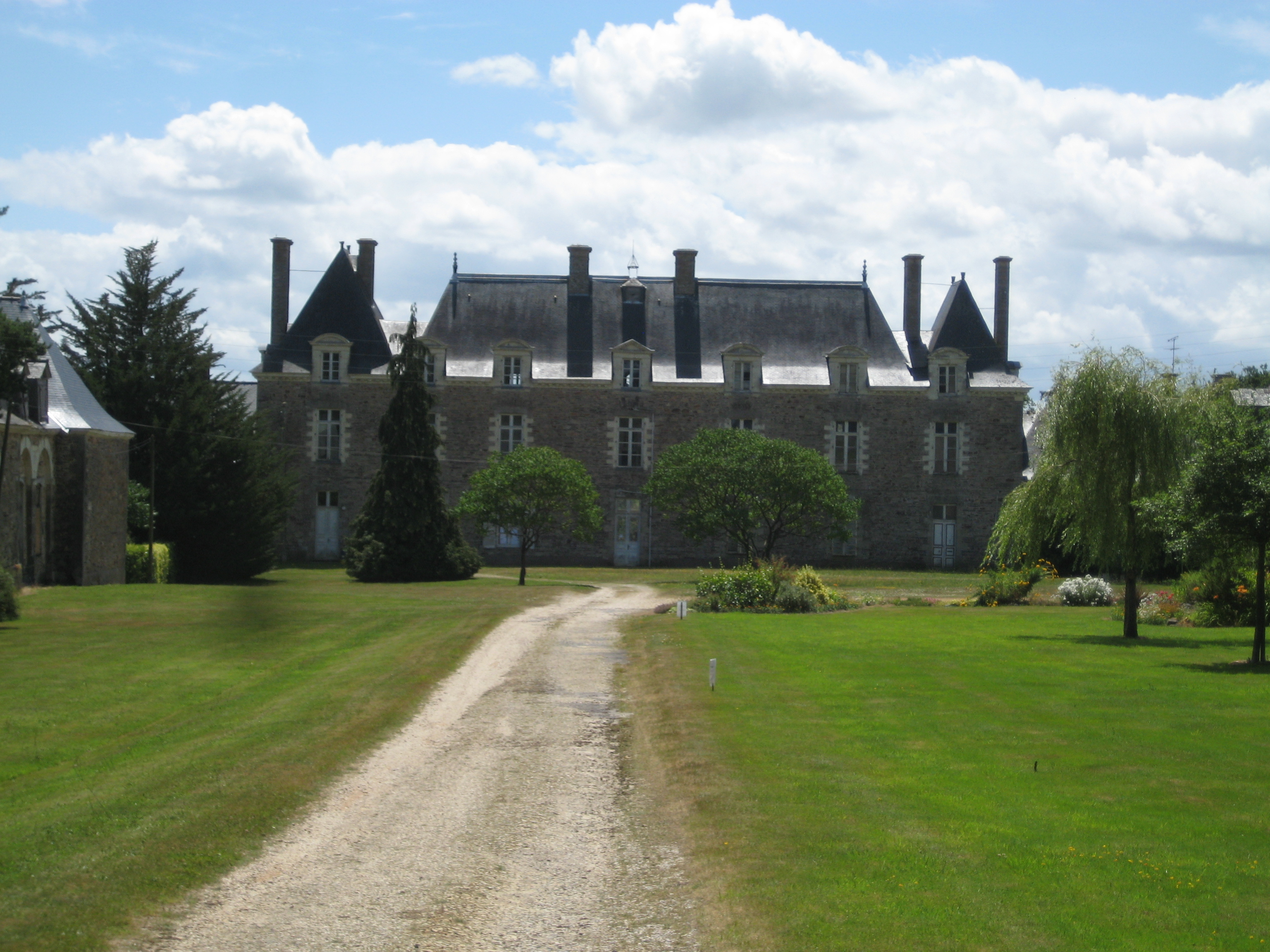 castle of La Chapelle-Bouëxic